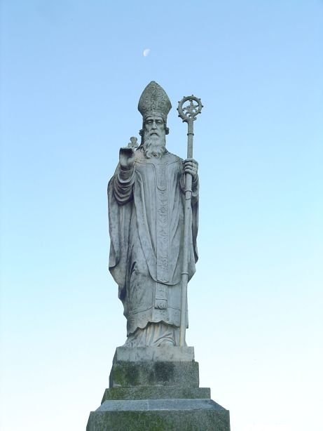 Statue of Saint Patrick at the Hill of Tara, Co. Meath, Ireland.